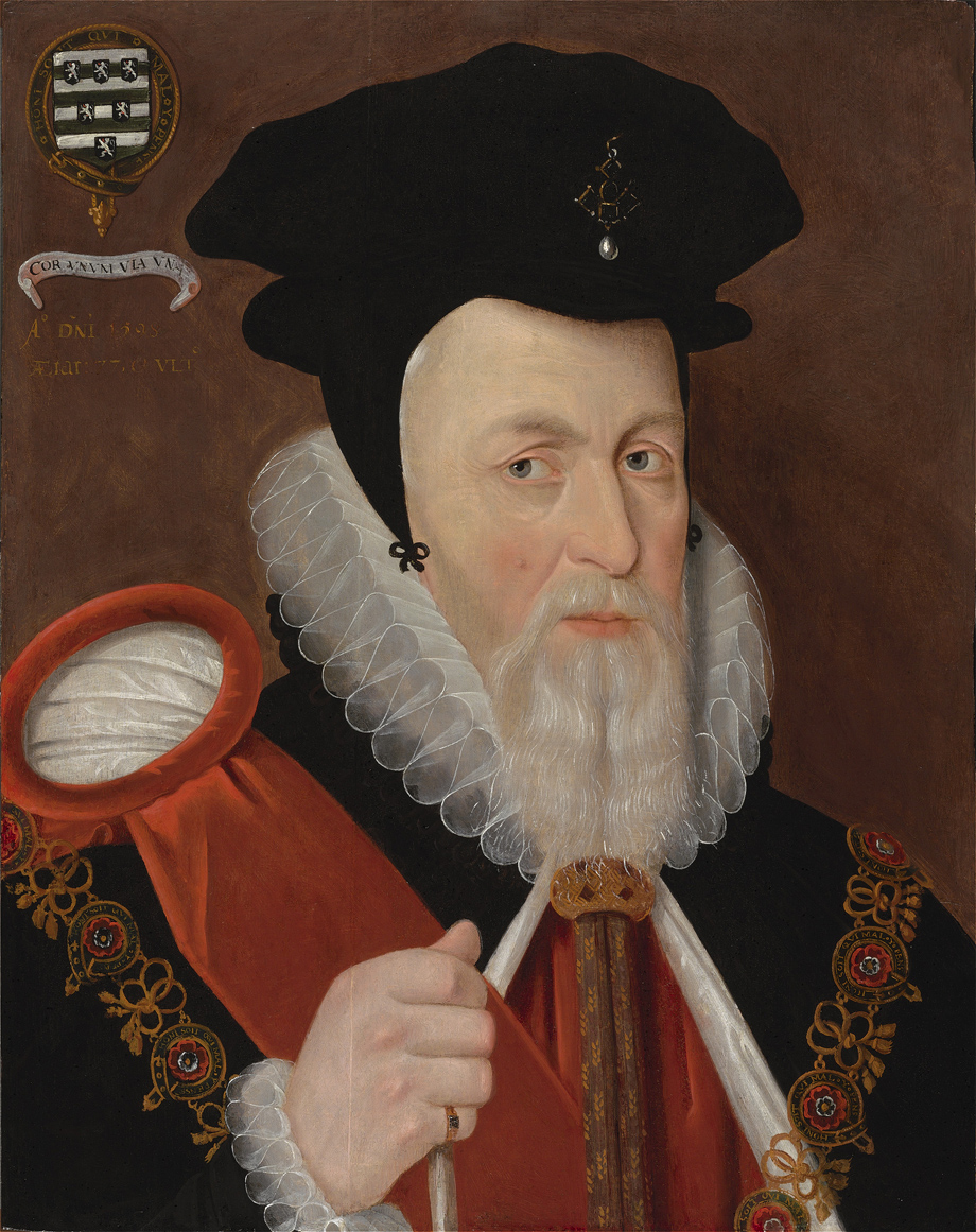 William Cecil, 1st Baron Burghley, Lord High Treasurer of England, oil on panel, 21 x 16 inches; 53.4 x 46 cm